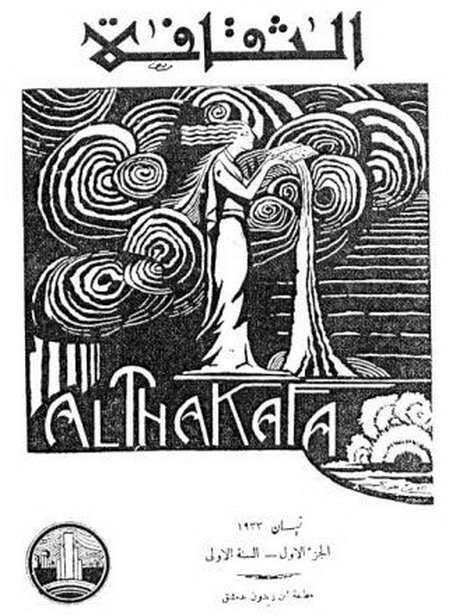 Al-Thakafa («ثقافة» - Culture) magazine cover (April 1933)